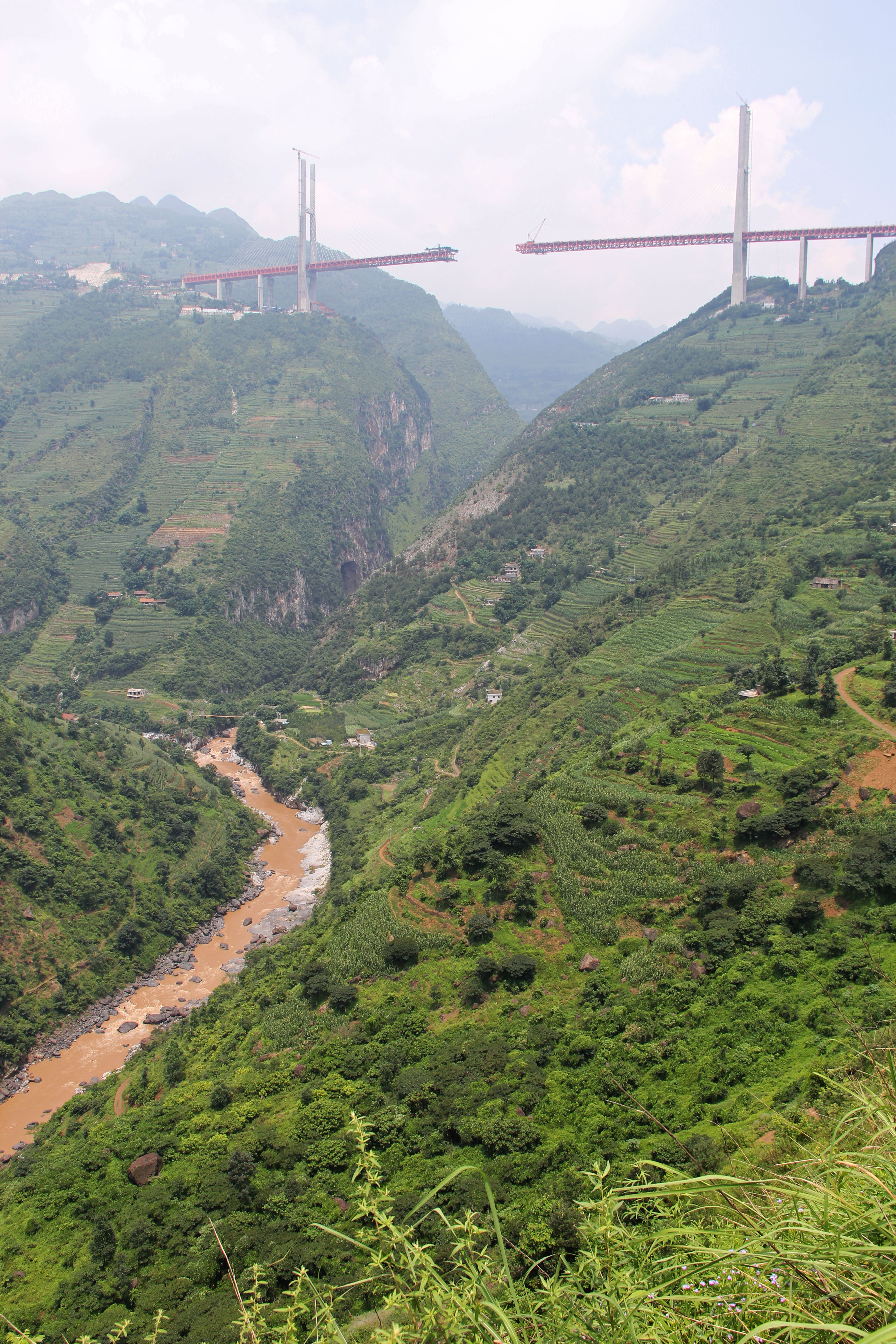 Beipanjiang Duge Bridge under construction in 2016.